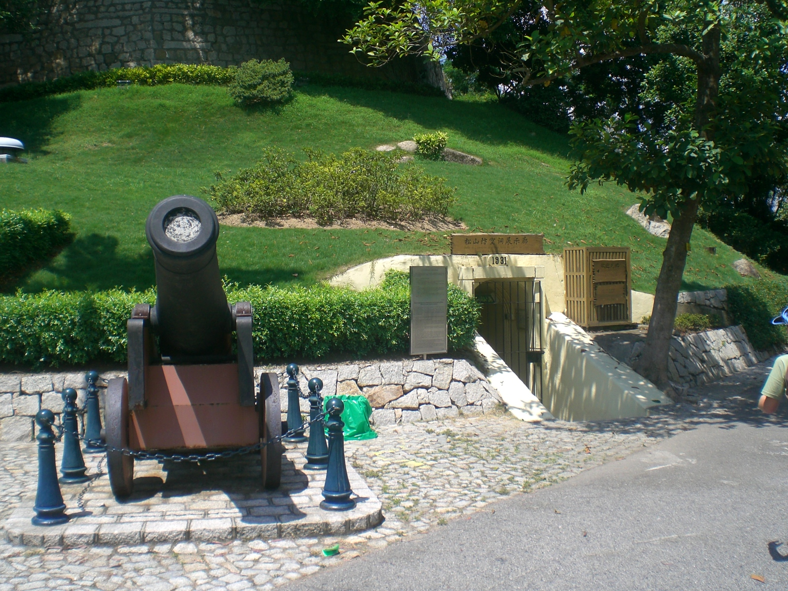 東望洋山, 松山, Guia Hill, Macau. Photo author= Mo707